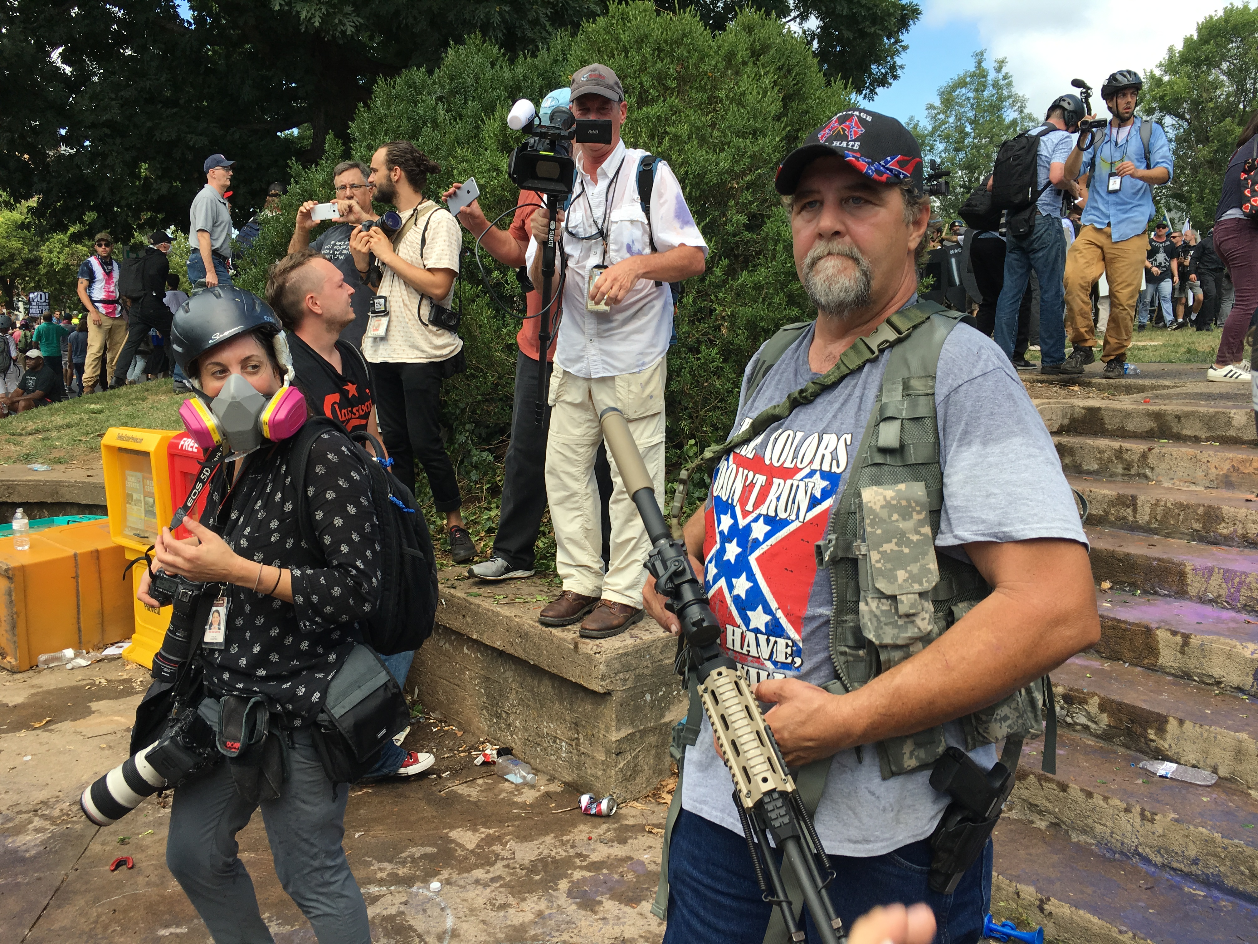 Charlottesville, VA August 12, 2017